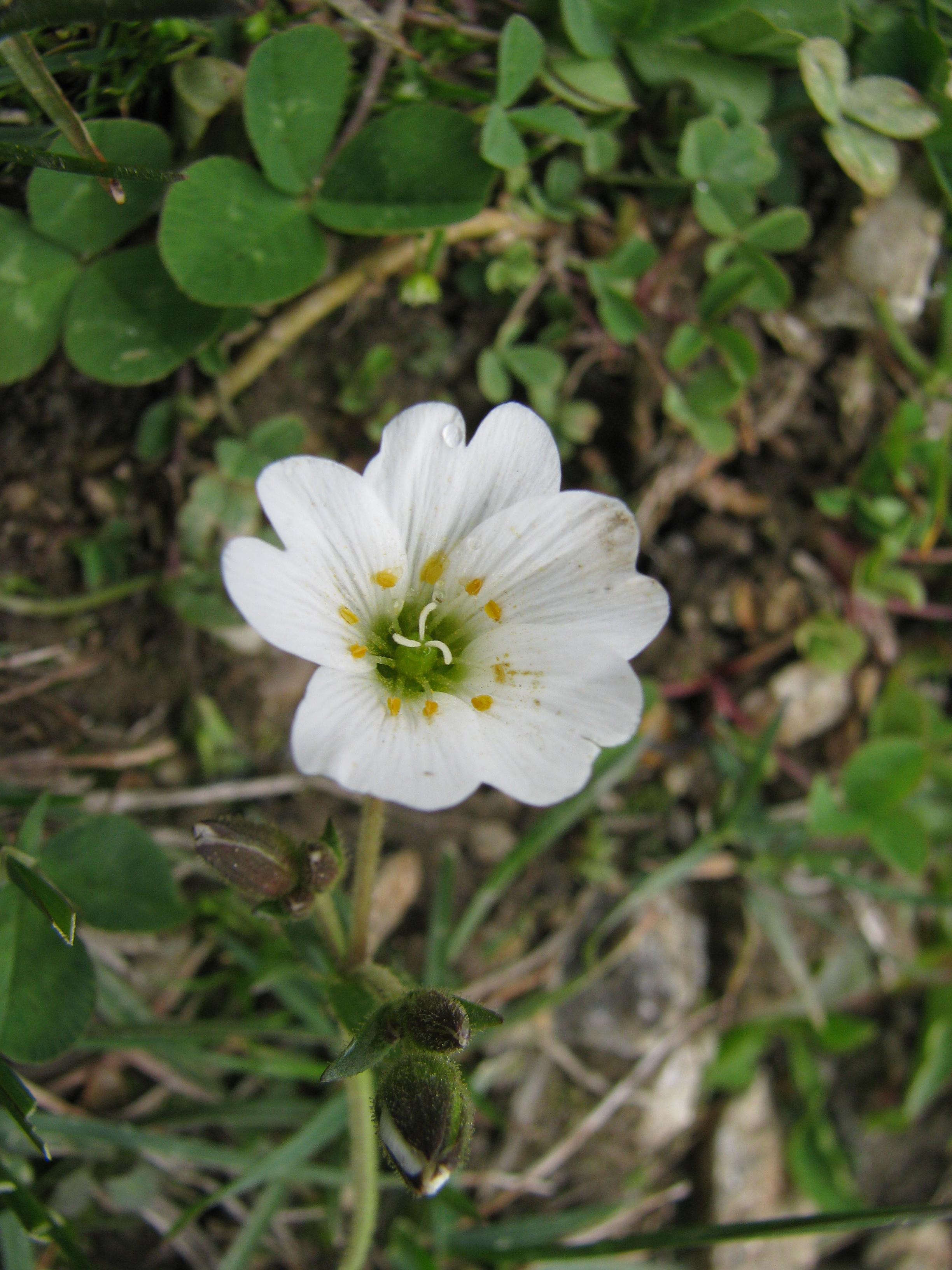 plant cerastium cerastioides